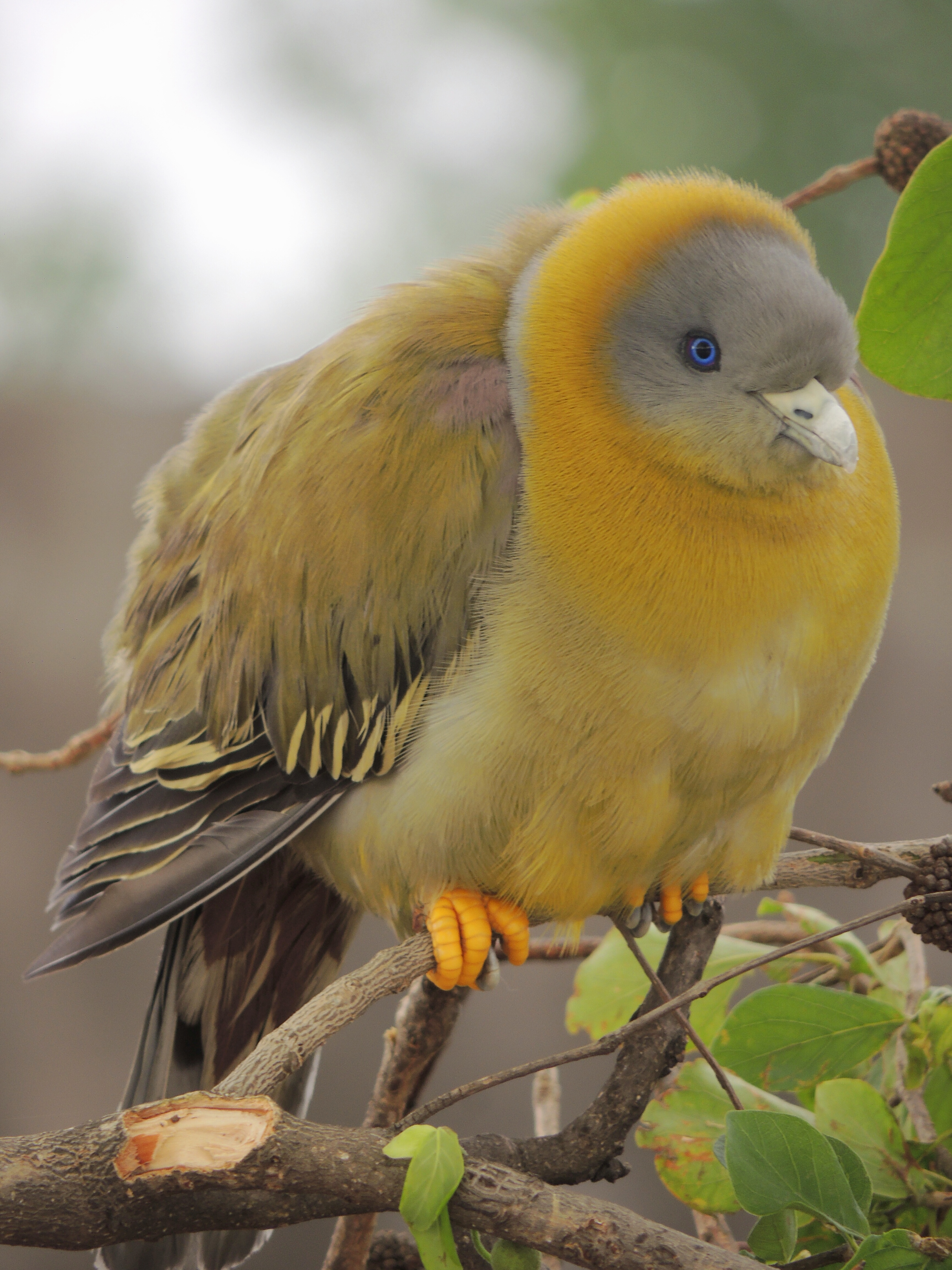 Yellow-footed Green Pigeon Treron phoenicopterus or the harial is a rare bird to find. I went for a morning walk and noticed it sitting on a branch when I clicked this beauty.